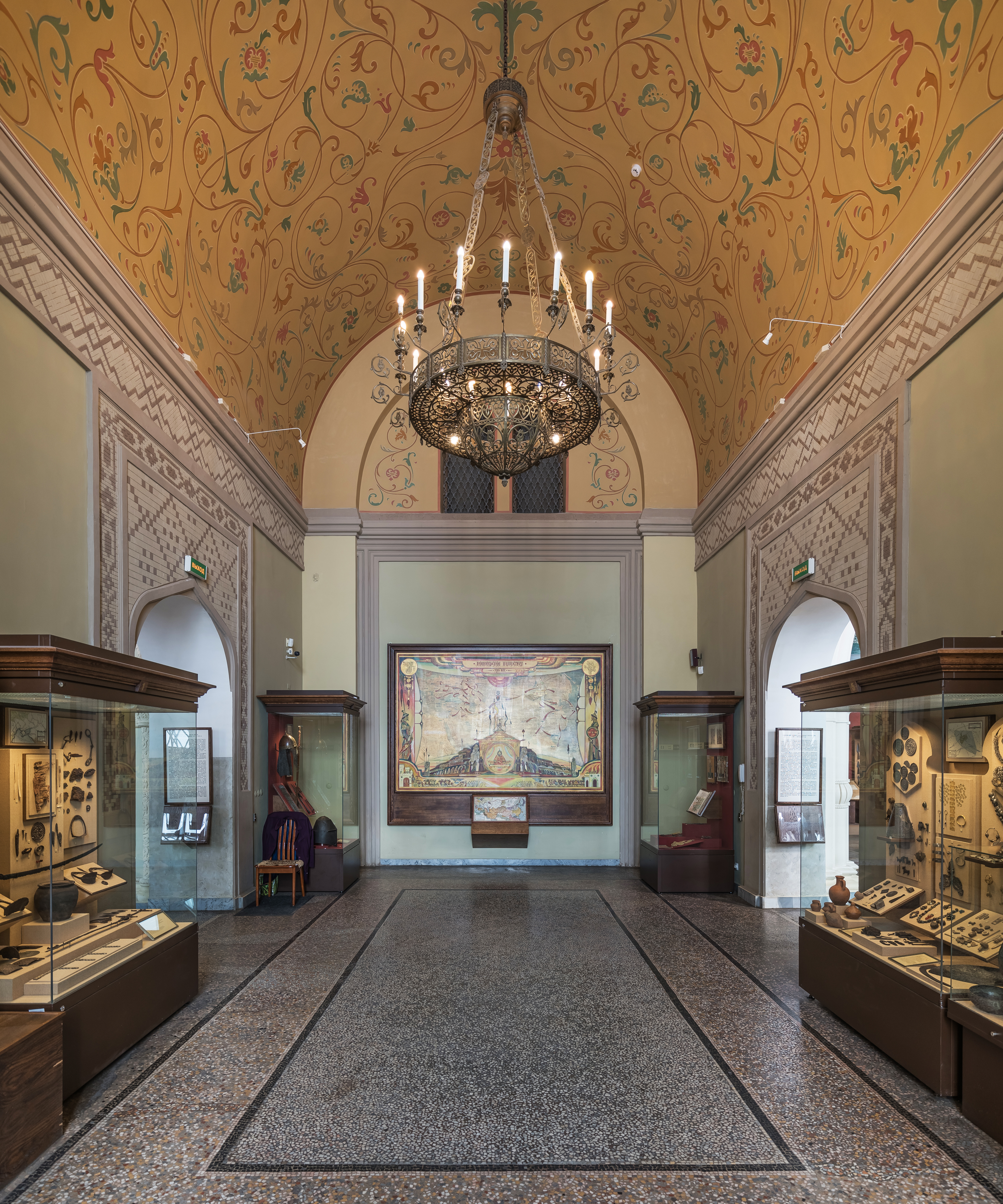 Interior of the main building of State Historical Museum in Moscow, Russia